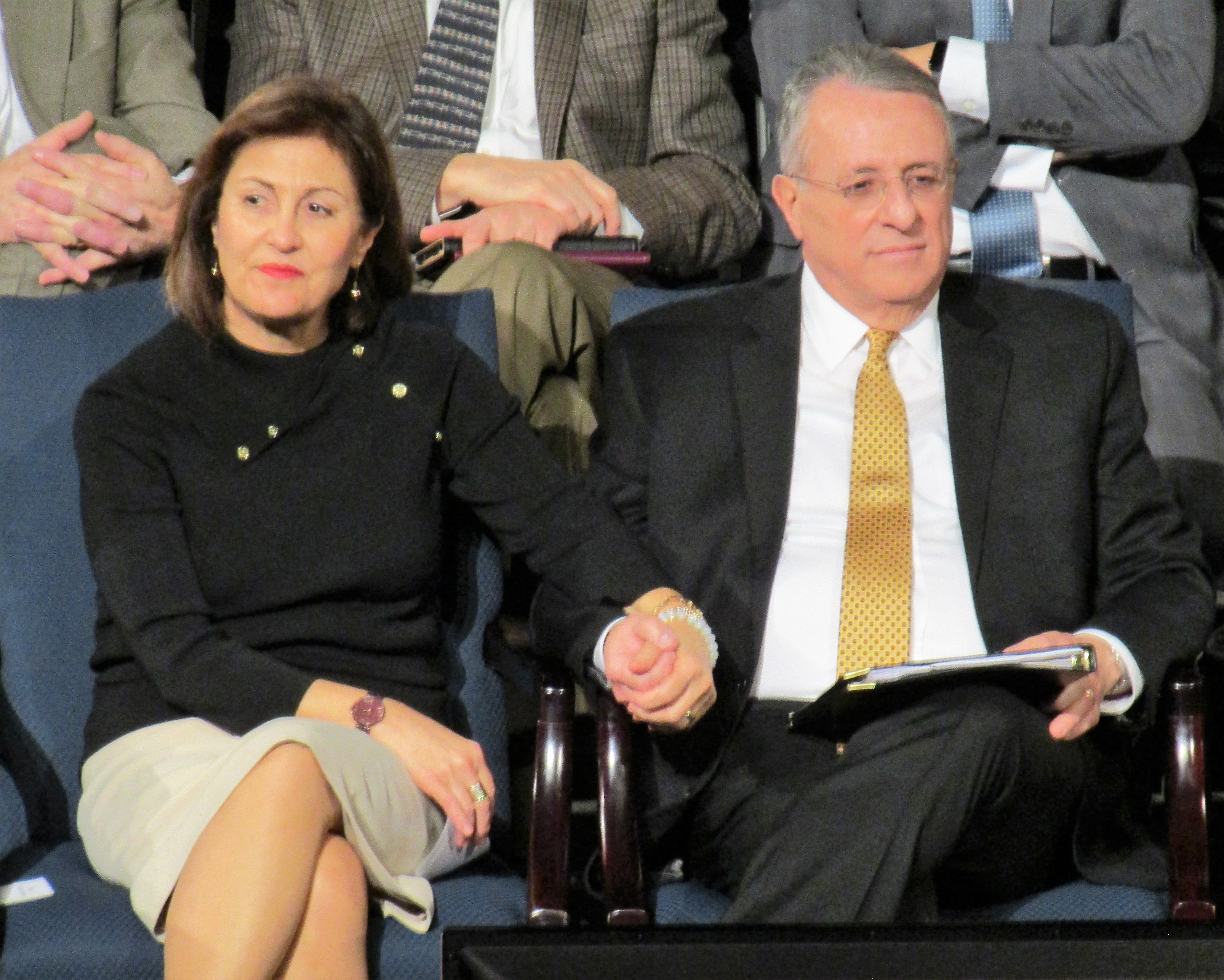 Rosana and Ulisses Soares at a BYU devotional.